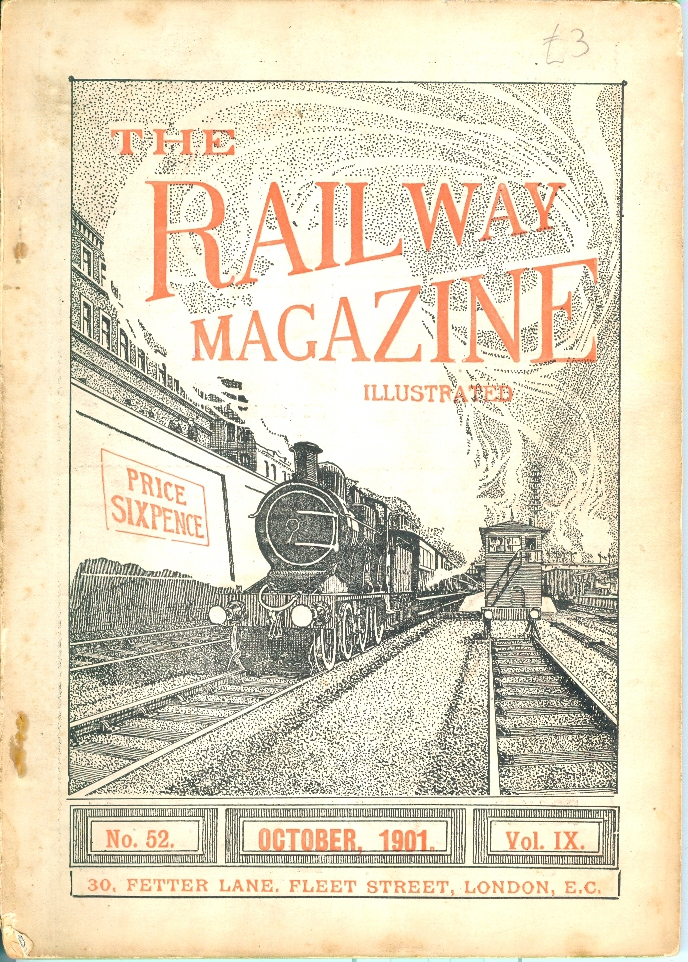 Front cover of The Railway Magazine for October 1901, which is typical for the early 20th century; much of the design was constant from month to month, only the colours, issue number, date and volume number changing